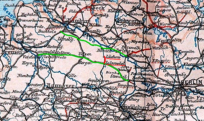 Map of the former railway lines Wittenberge–Buchholz, Stendal–Langwedel (grün) and Salzwedel–Luechow (red) in Germany.